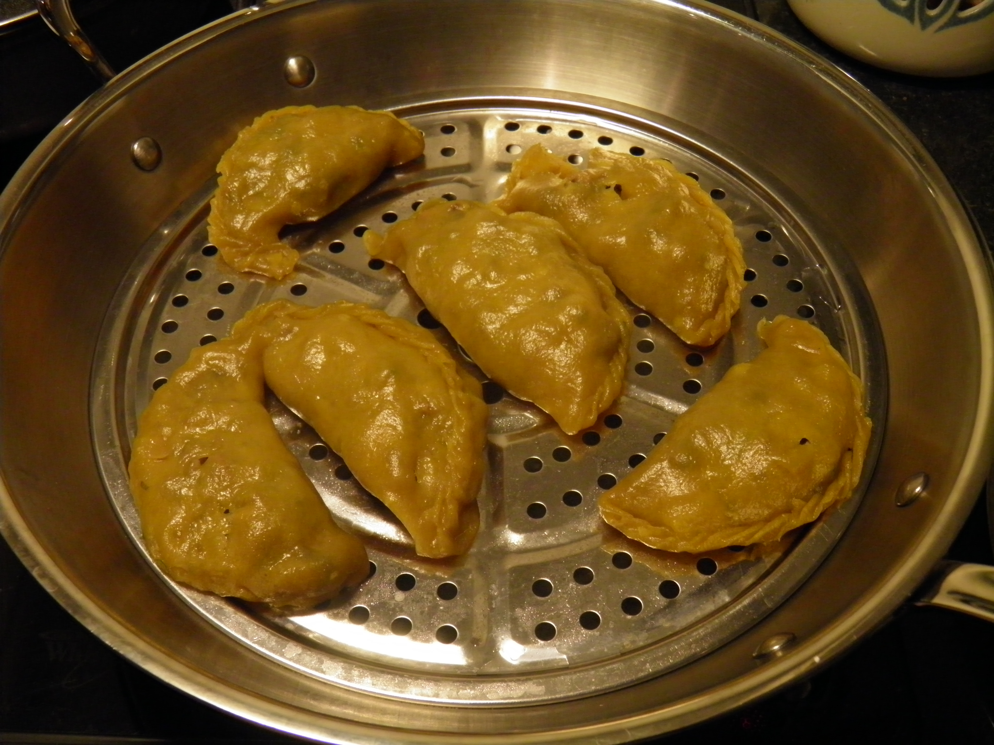 Fānshǔyuán (番薯圆), or a sweet potato bun, a specialty from Yuhuan, Zhejiang, PR China